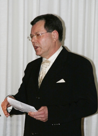 Guenter Mueller giving a speech